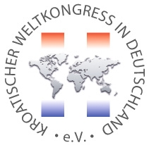 Logo of the Croatian World congress in Germany